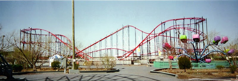 {This is the first version of Wildcat located at Cedar Point. Wildcat opened in 1970 and operated until 1978. It was designed by Schwarzkopf.